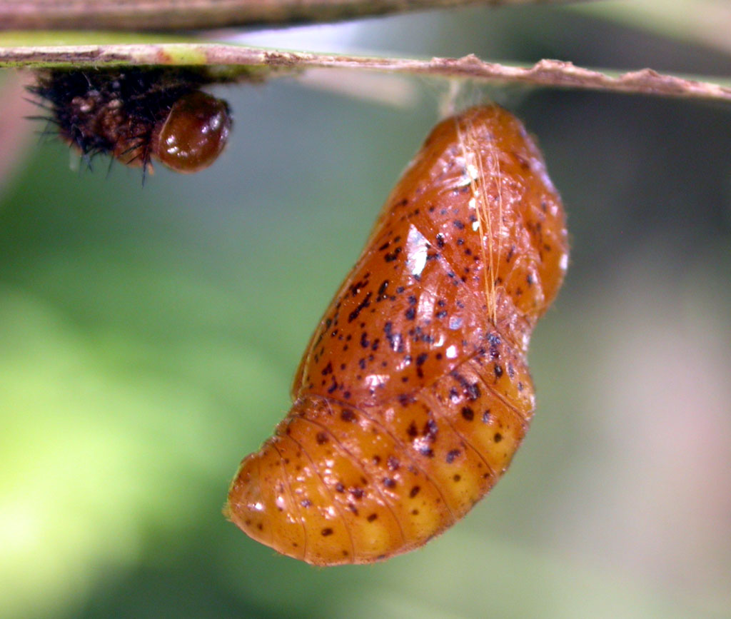 Atala, Eumaeus atala, pupa, Palm Beach County, Florida, United States